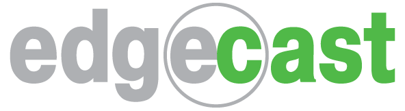 Logo for EdgeCast Networks